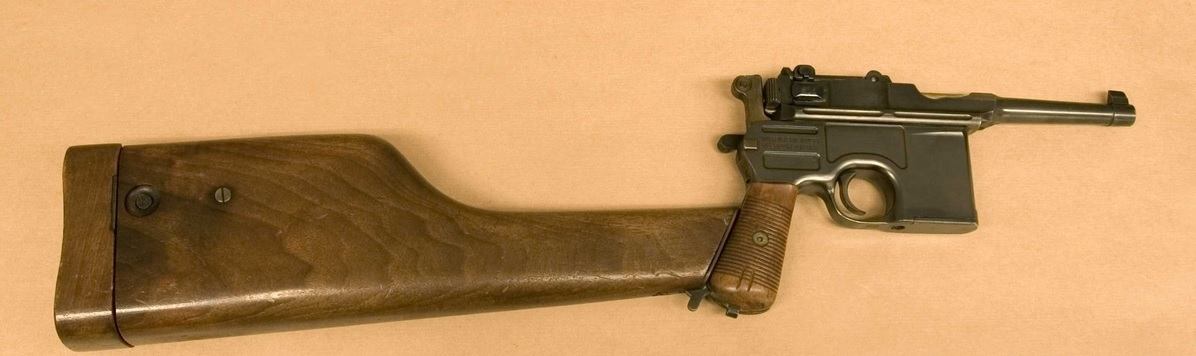 The Mauser C/96 pistol from the Swedish Army Museum collections. The pistol is shown here with a buttstock attached. The buttstock also functioned as a case for the pistol. Donated to the museum by arms collector Gösta Benckert.